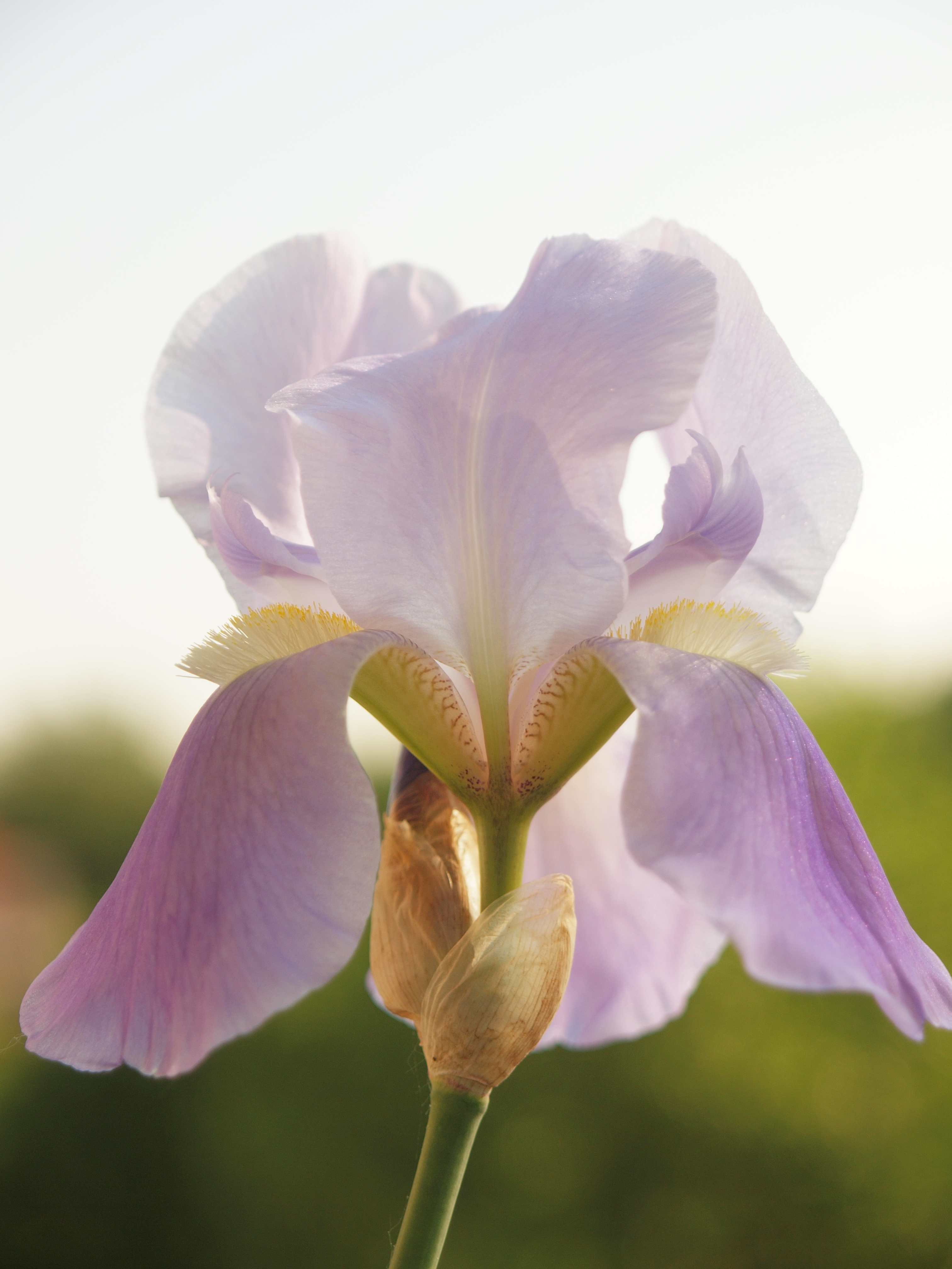 Iris pseudopallida, plant from the wild, Slansko jezero near Niksic, Montenegro, in cultivation